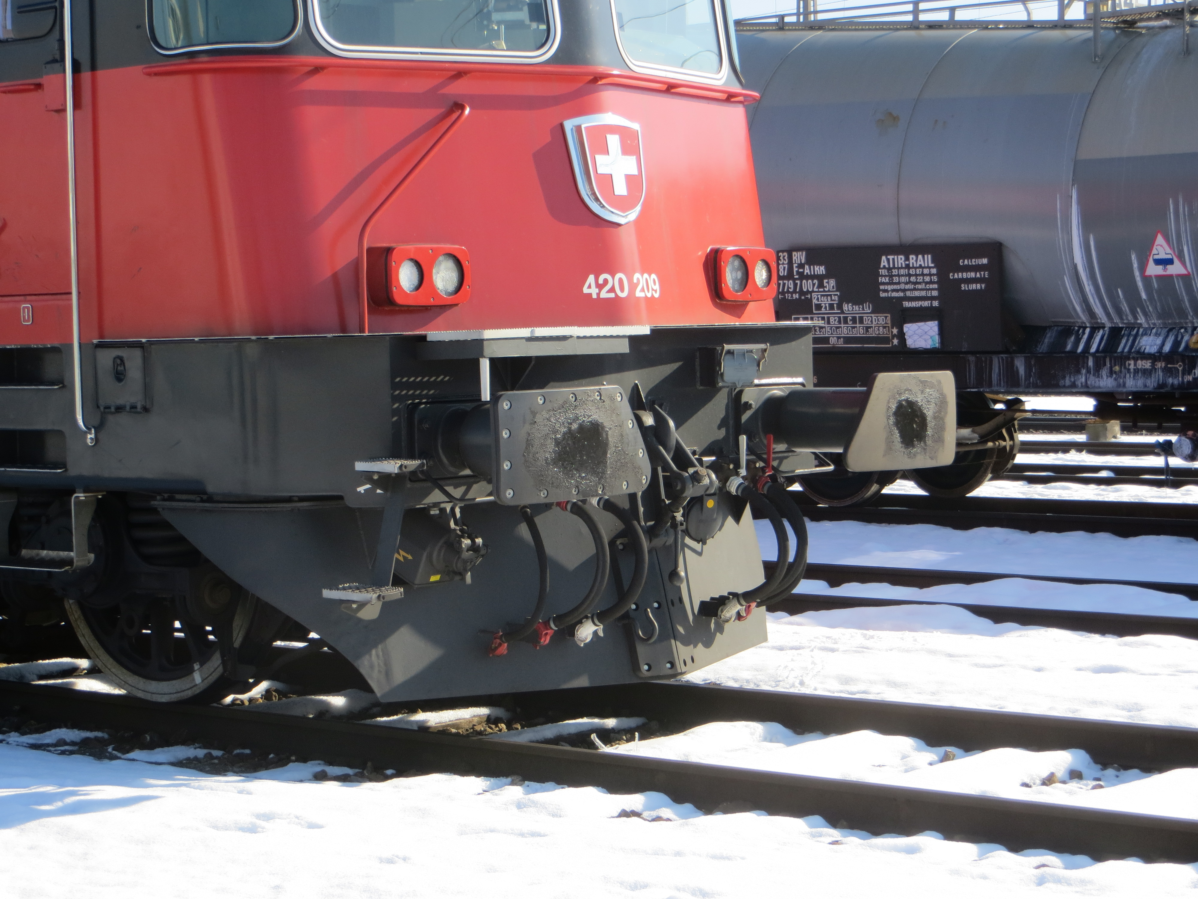 Rotkreuz train station SBB Re 420 209-9 LION (Re 4/4 II 11209) New buffers and headlights with LED